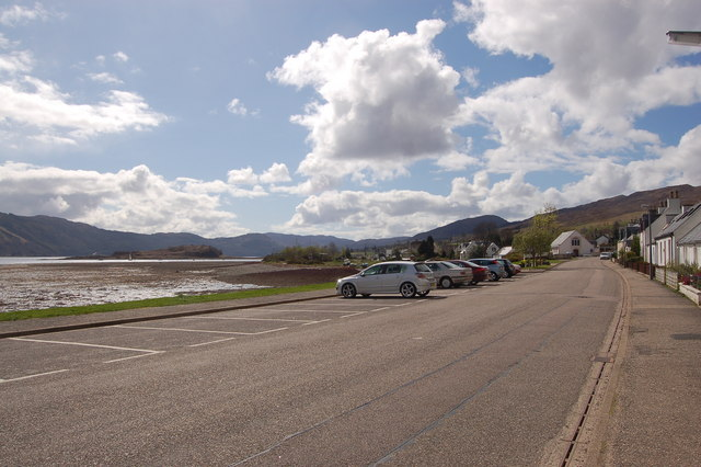 A896 in Lochcarron